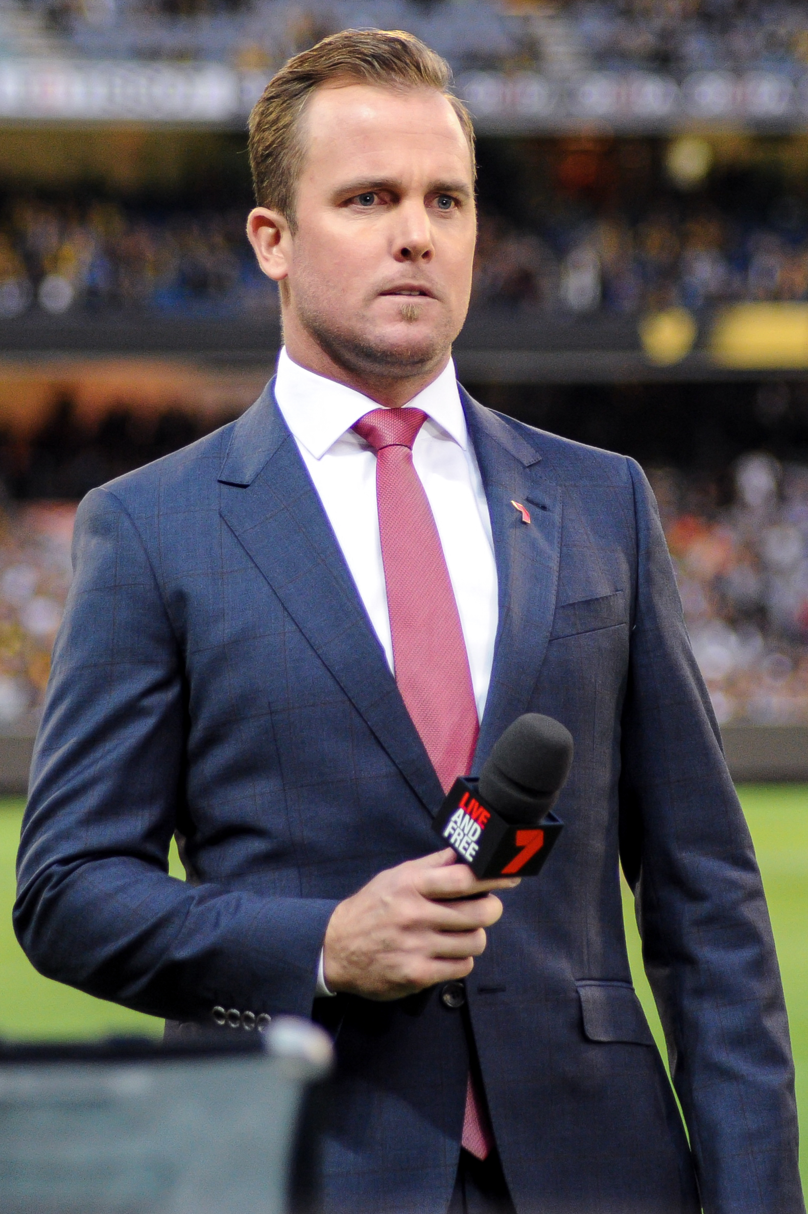 Andrew Welsh with the Seven Network during the AFL round two match between Richmond and Collingwood on 30 March 2017 at the Melbourne Cricket Ground in Melbourne, Victoria.